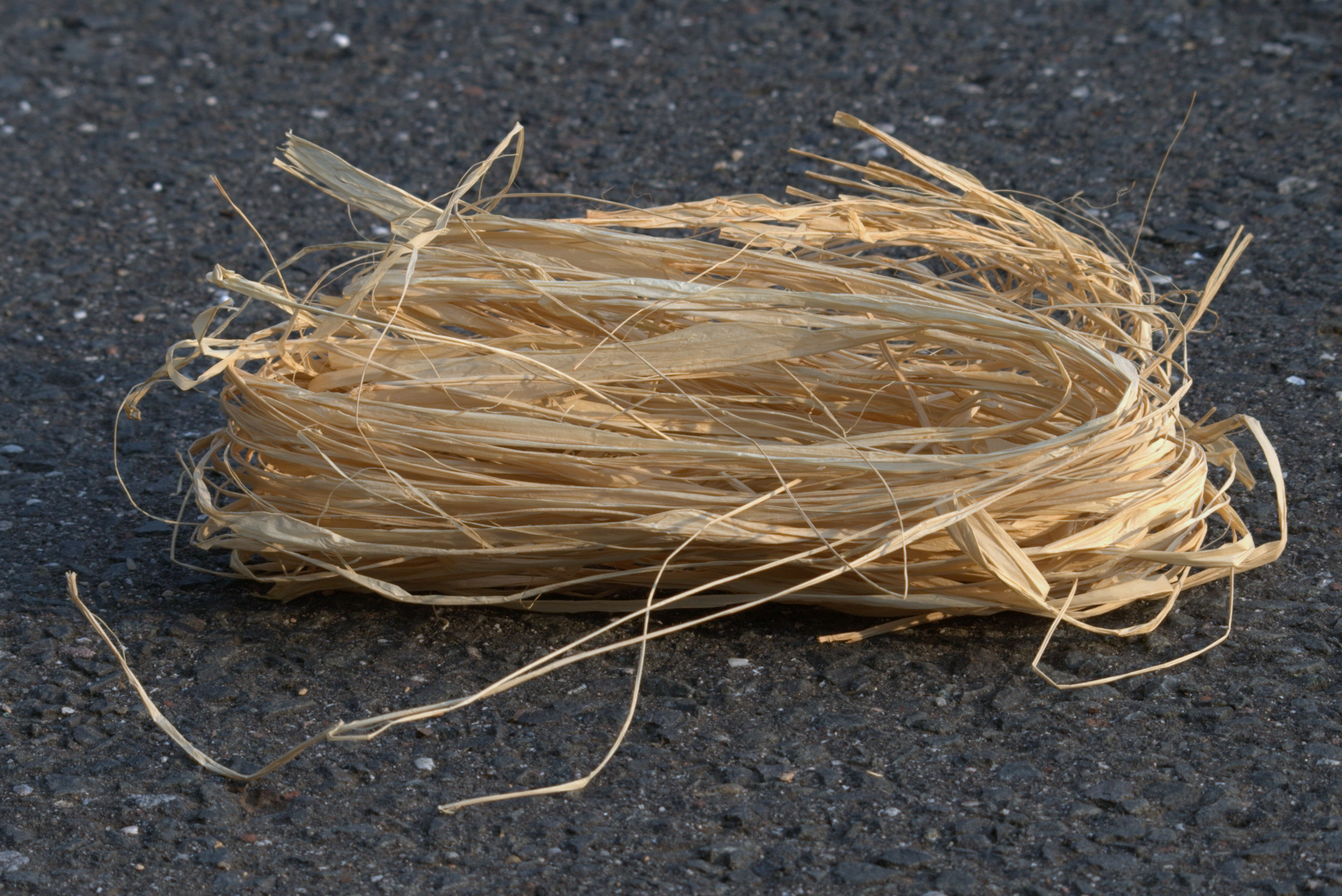 Fibers of raffia (from the Raphia palm tree), which are used for a variety of purposes, including: securing plant grafts; tying plants to support structures; wrapping and protecting the bark of bonsai; and securing bonsai into soil.